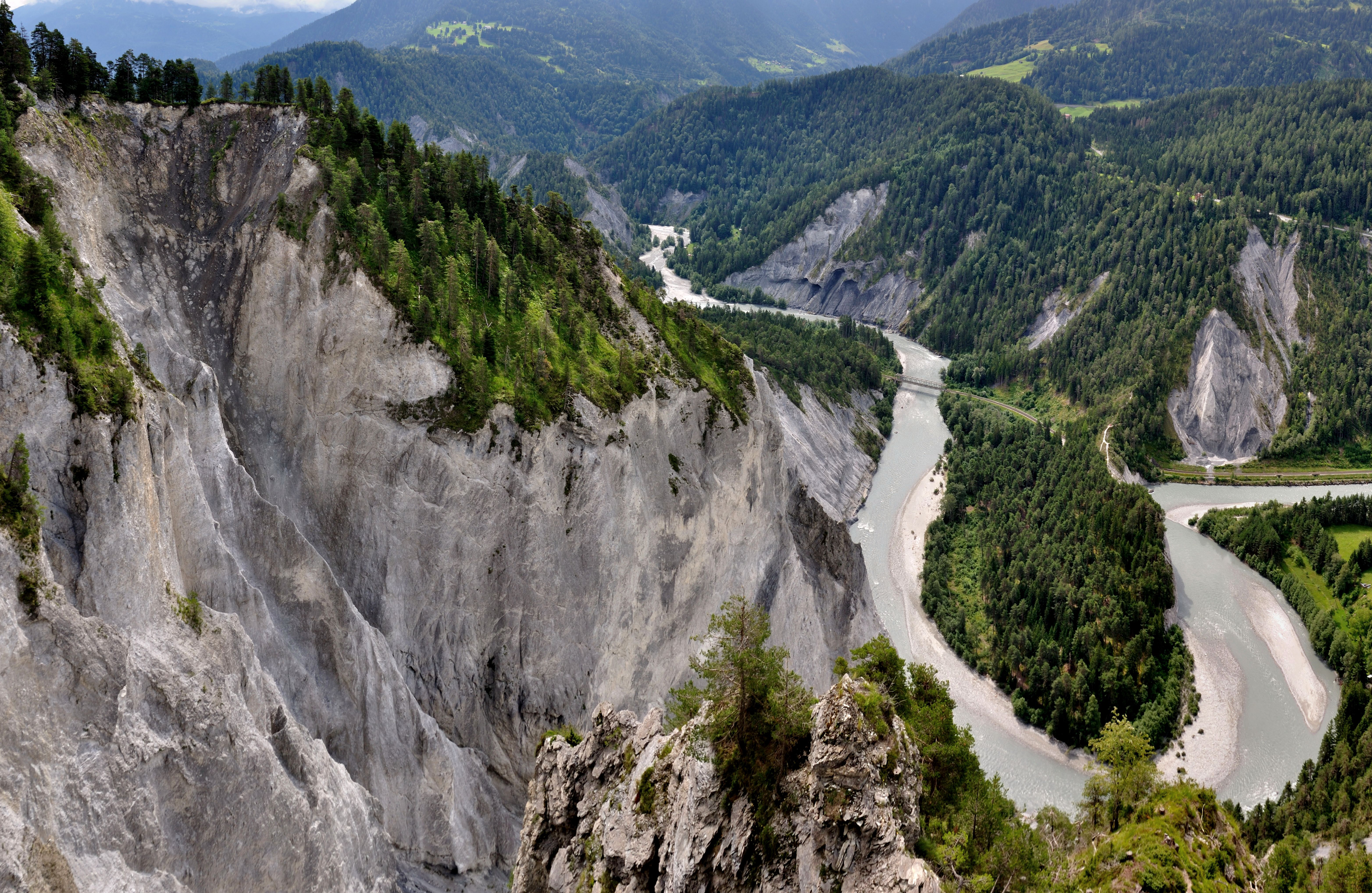 Switzerland, Rhine Gorge (Ruinaulta) from view point "Il Spir"